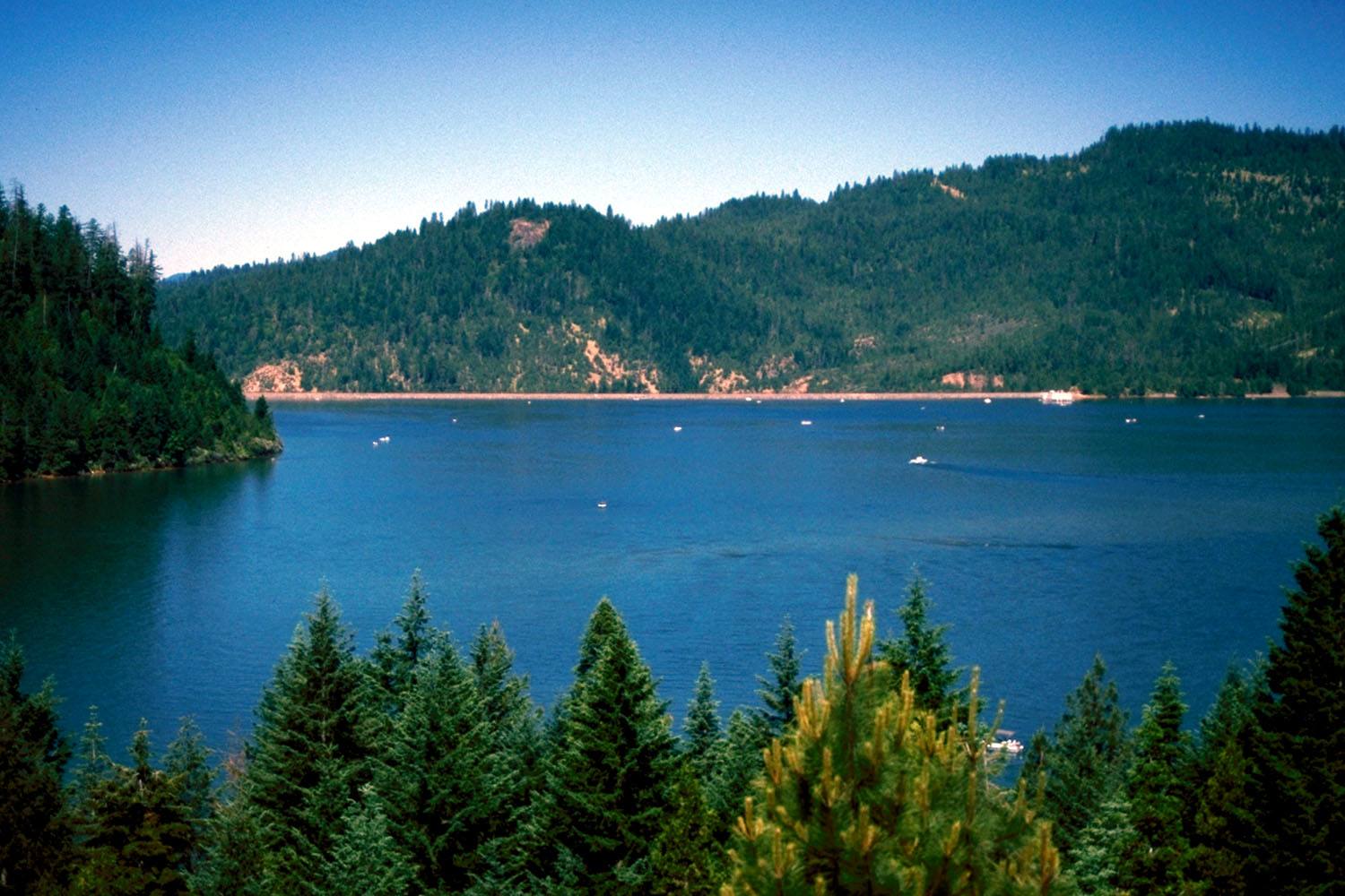 Lost Creek Lake on the Rogue River in Jackson County, Oregon, USA. The U.S. Army Corps of Engineers constructed the dam and lake in 1977 for flood control and water supply. The name of the dam was changed to William L. Jess Dam by an act of Congress in 1996. View is from behind the dam to the west overlooking the top of the dam. Coordinates: 42°40′14.97″N 122°40′19.08″W / 42.670825°N 122.6719667°W